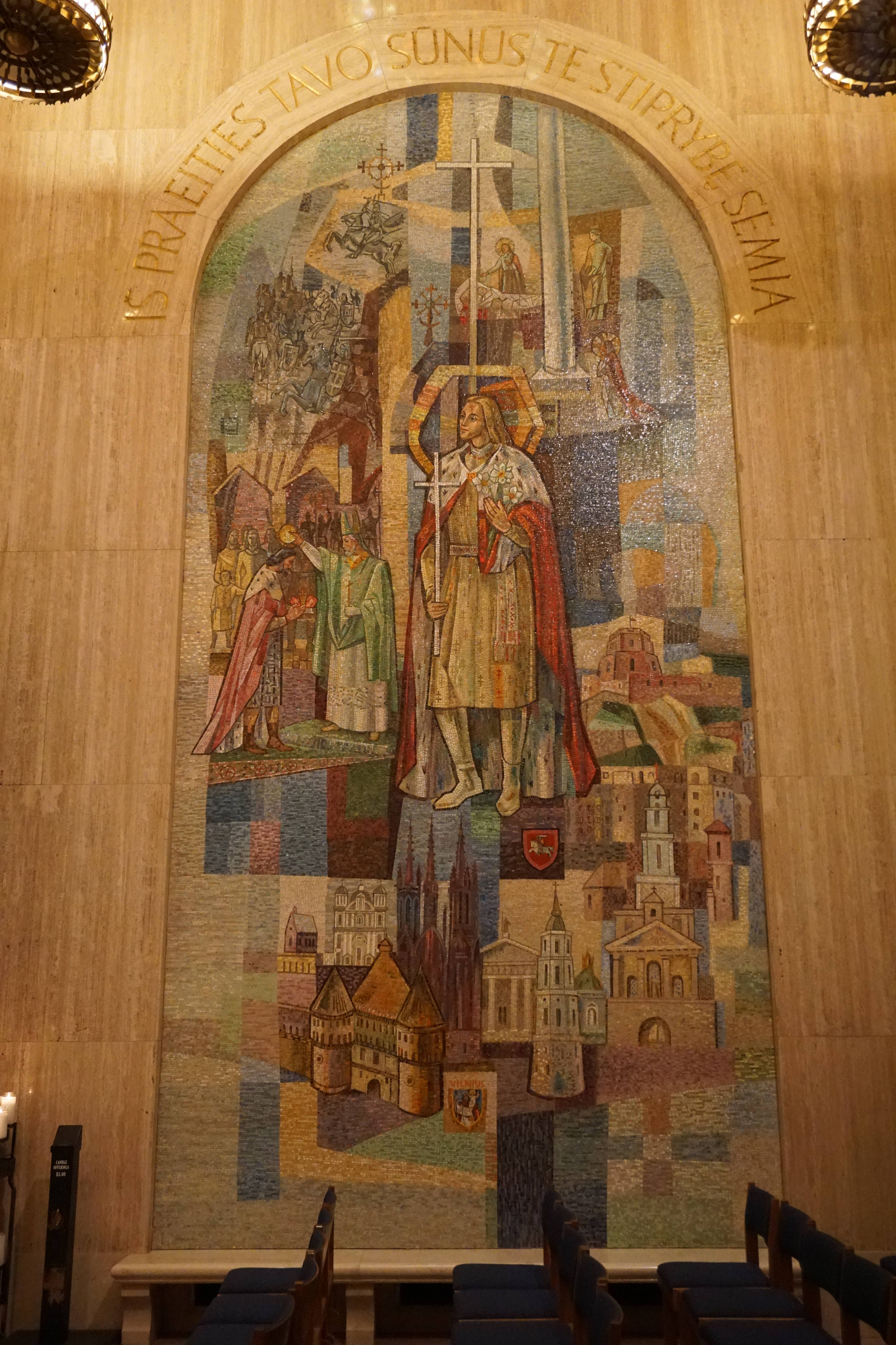 Lithuanian Our Lady of Šiluva chapel in Washington, DC. The image was created as part of the "Destination America 2017" non-commercial project to map and document Lithuanian-American sites. More information about Washington Lithuanian sites is available at